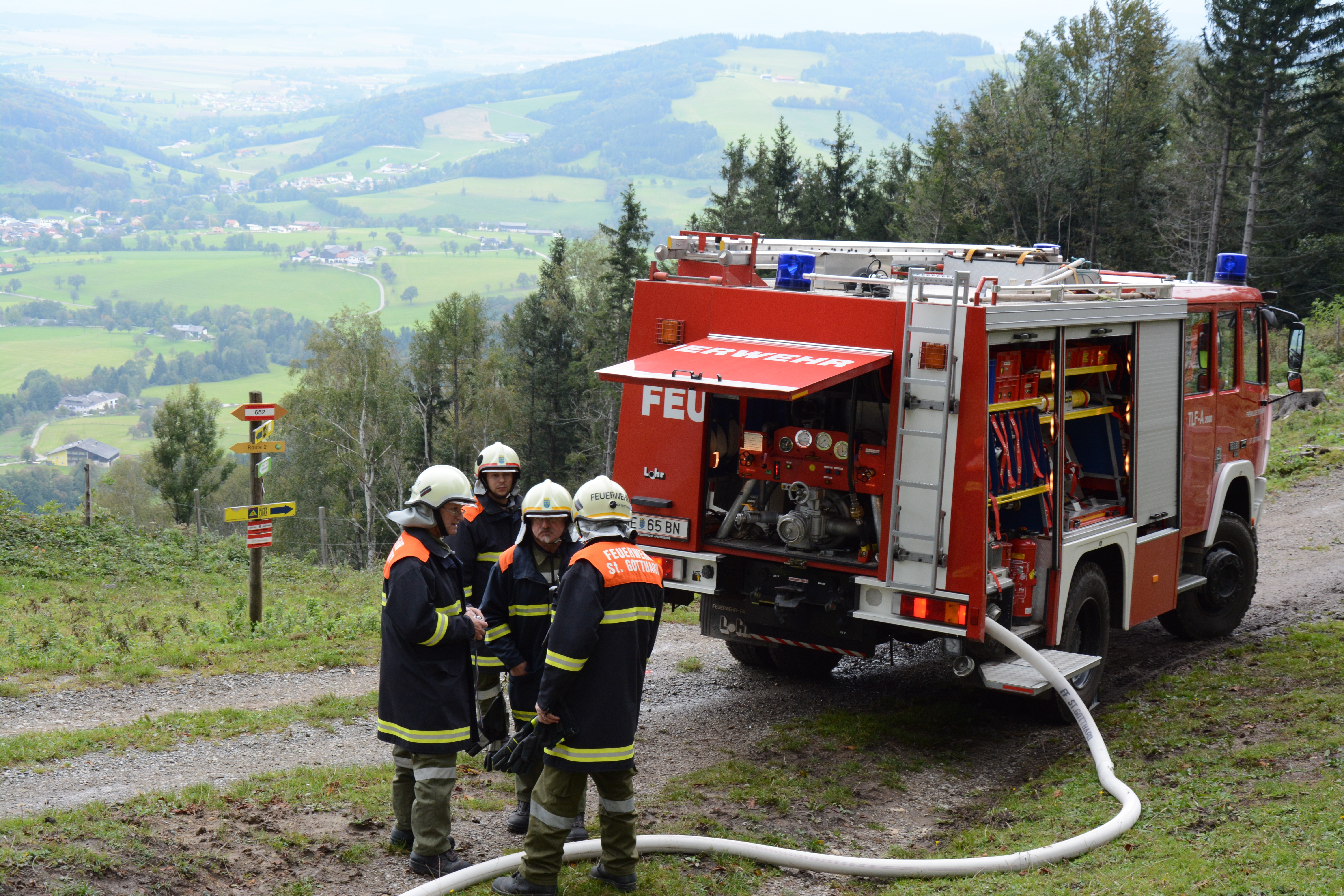 Cross-district firefighters exercise at Schwabeck, Frankenfels